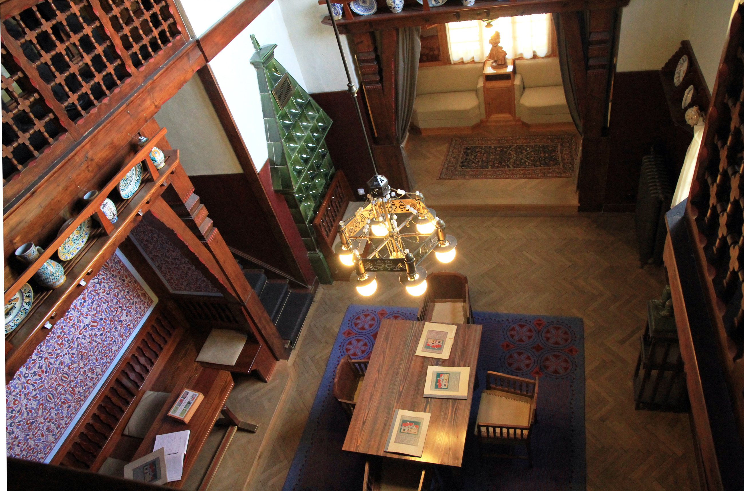 Interior of Villa of Dušan Jurkovič (central hall) in town Brno, Czech Republic